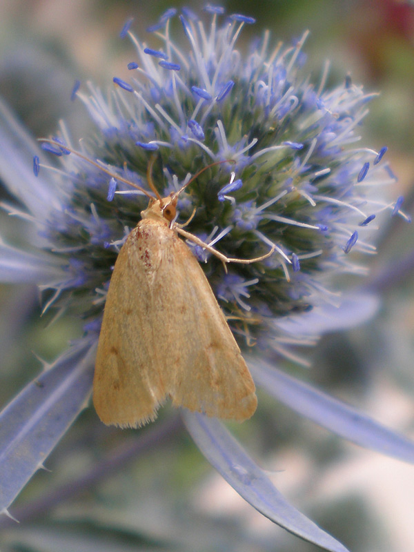 Near Tàrrega, Lleida, Catalonia. . July 1, 2007